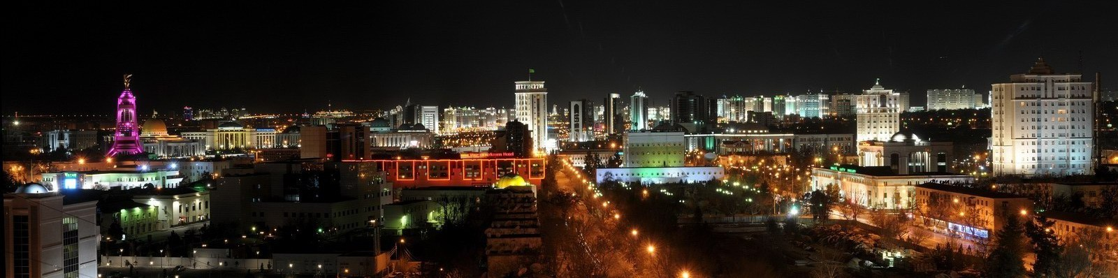 Panorama of Ashgabat